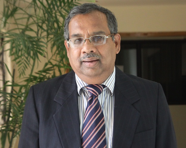 Picture of B B Chakrabarti.